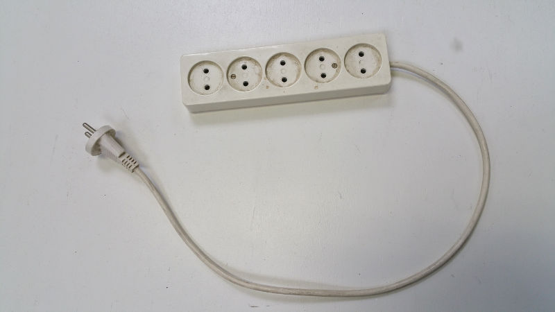 Old European power bar with CEE 7-1 sockets and CEE 7-2 plug.